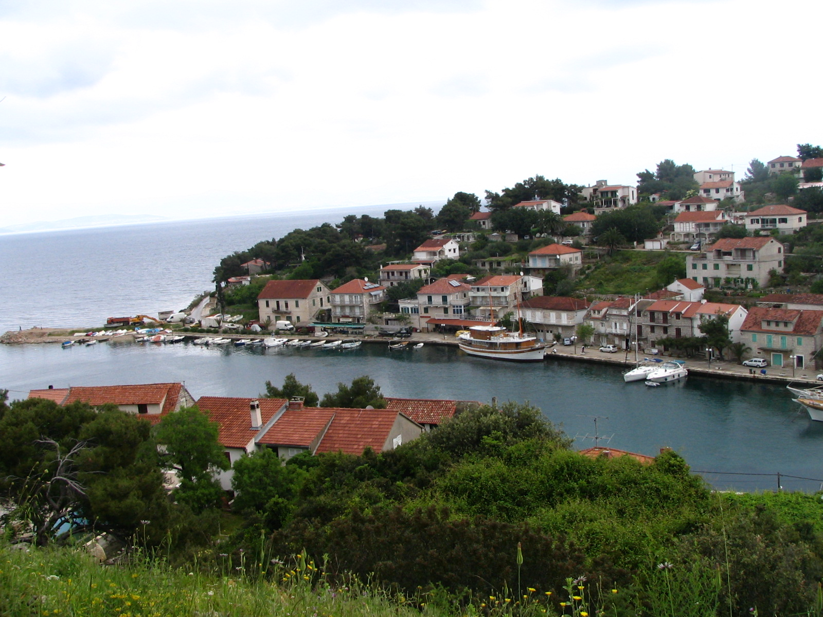 City of Stomorska (Croatia). Own photo.